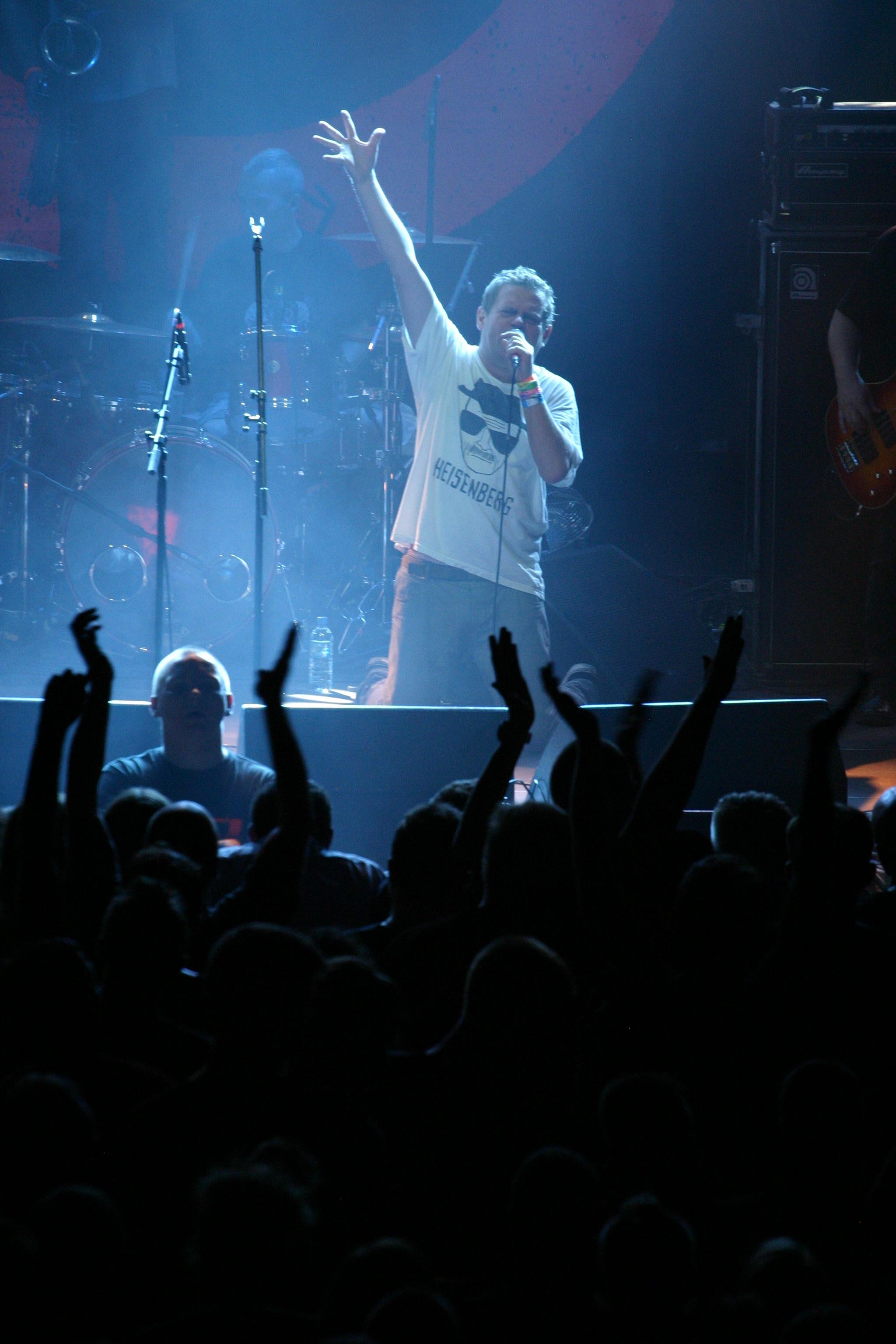 Kazik Staszewski with Kult - concert in Lodz, 26.10.2014.